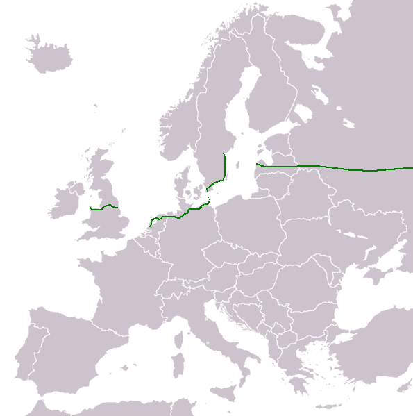 Describes the E22 european route. A part of Russia is missing. There is a dashed line where there is a direct ferry linking the road together. No line indicates no such ferry.